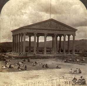 Temple of Minerva, Guatemala City. Built during administration of Manuel Estrada Cabrera. The architrave is inscribed: MANUEL ESTRADA CABRERA PRESIDENTE DE LA REPUBLICA A LA JUVENTUD ESTUDIOSA ("Manuel Estrada Cabera, President of the Republic, to the Studious Youths"). This structure was later demolished during the government of Col. Jacobo Arbenz in the early years of the 1950's, but similar Temples in Quetzaltenango and other cities still stand. Scanned by Infrogmation (talk) from stereo card in my own collection. Undated, c. 1905. Copright expired.